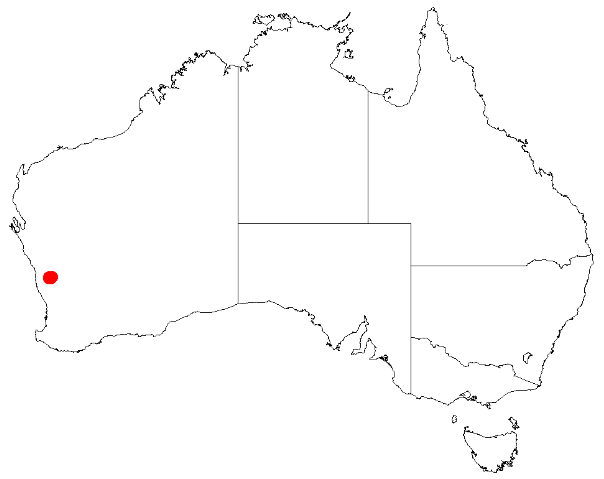 Acacia aprica Occurrence data from Australasia Virtual Herbarium downloaded from on 8 December 2018